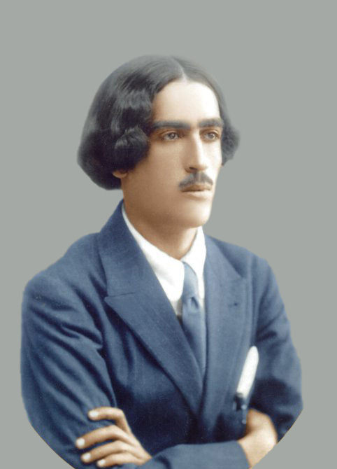 Arar: Mustafa Wahbi Al Tall